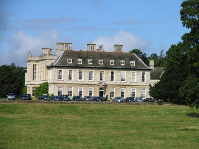 Stapleford Hall Hotel